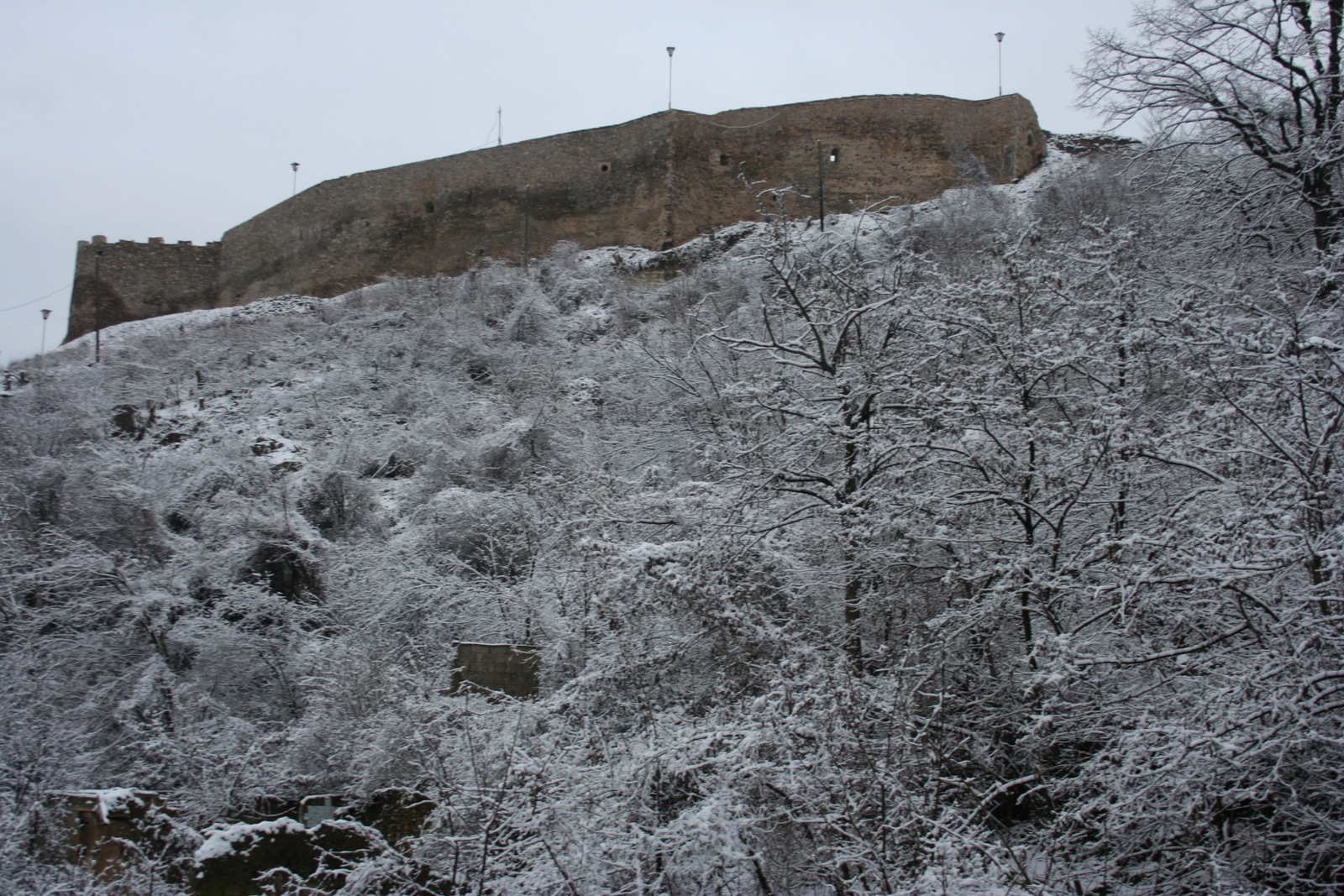 Kaljaja (Prizren Castle) — Kosovo.